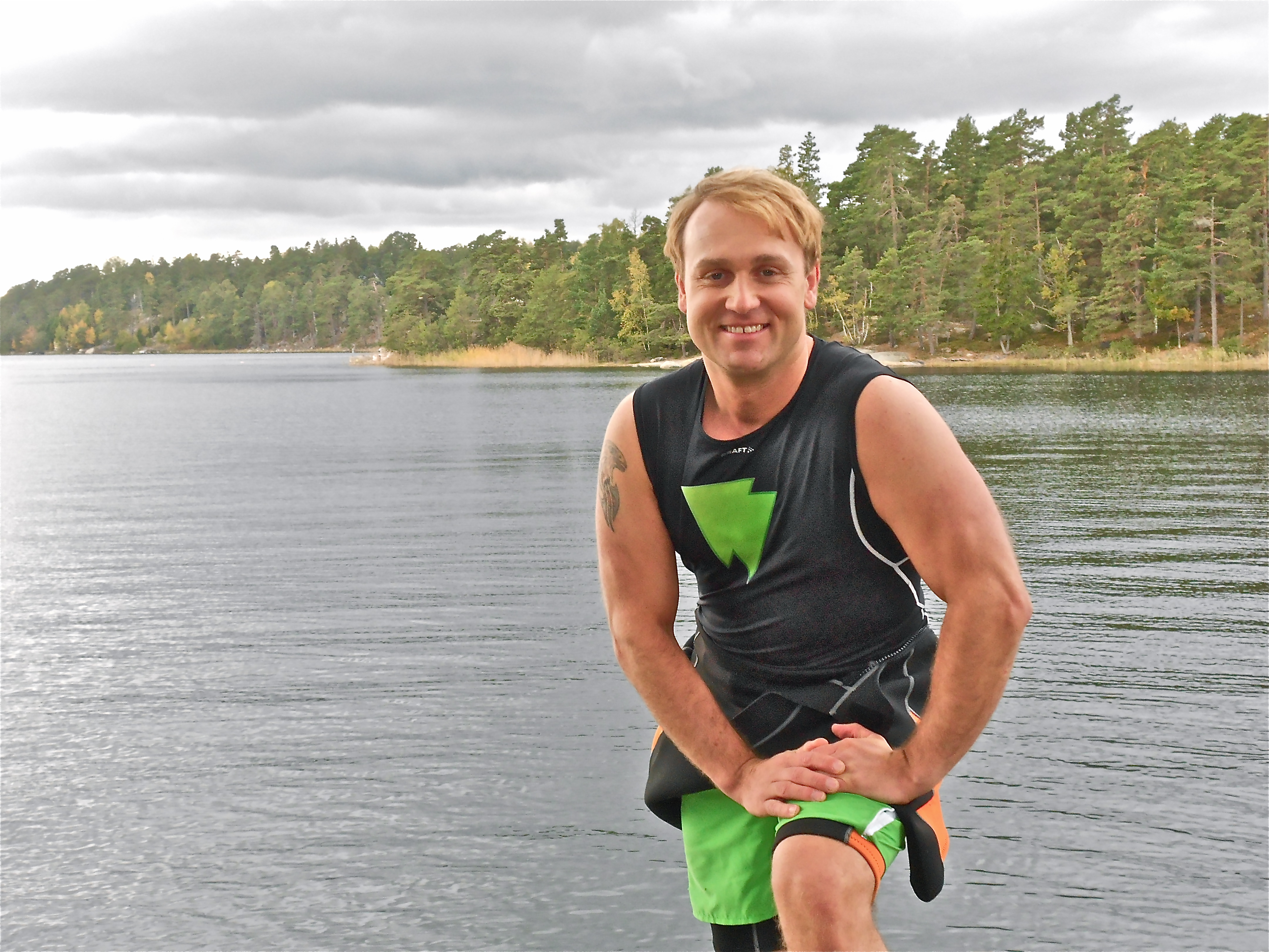 Slawomir Rynkiewicz, tv show Waterwörld